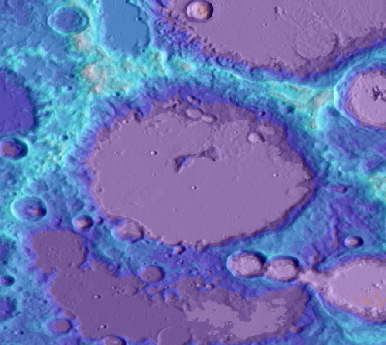 Color Shaded Relief derived from the Global WAC digital terrain model (GLD100), centered on Von Kármán crater. View is 380 km wide (500m/pixel). Equidistant Cylindrical projection. Shaded relief images are created from the digital terrain model by illuminating the surface from a given Sun direction and elevation above the horizon; to convey an absolute sense of height the resulting grayscale pixels are painted with colors that represent the altitude. See palette. The Chinese Chang'e 4 spacecraft landed in Von Kármán in January 2019. The central peak of the crater is now called Mons Tai, and three small craters within Von Kármán are called Hegu, Tianjin, and Zhinyu.